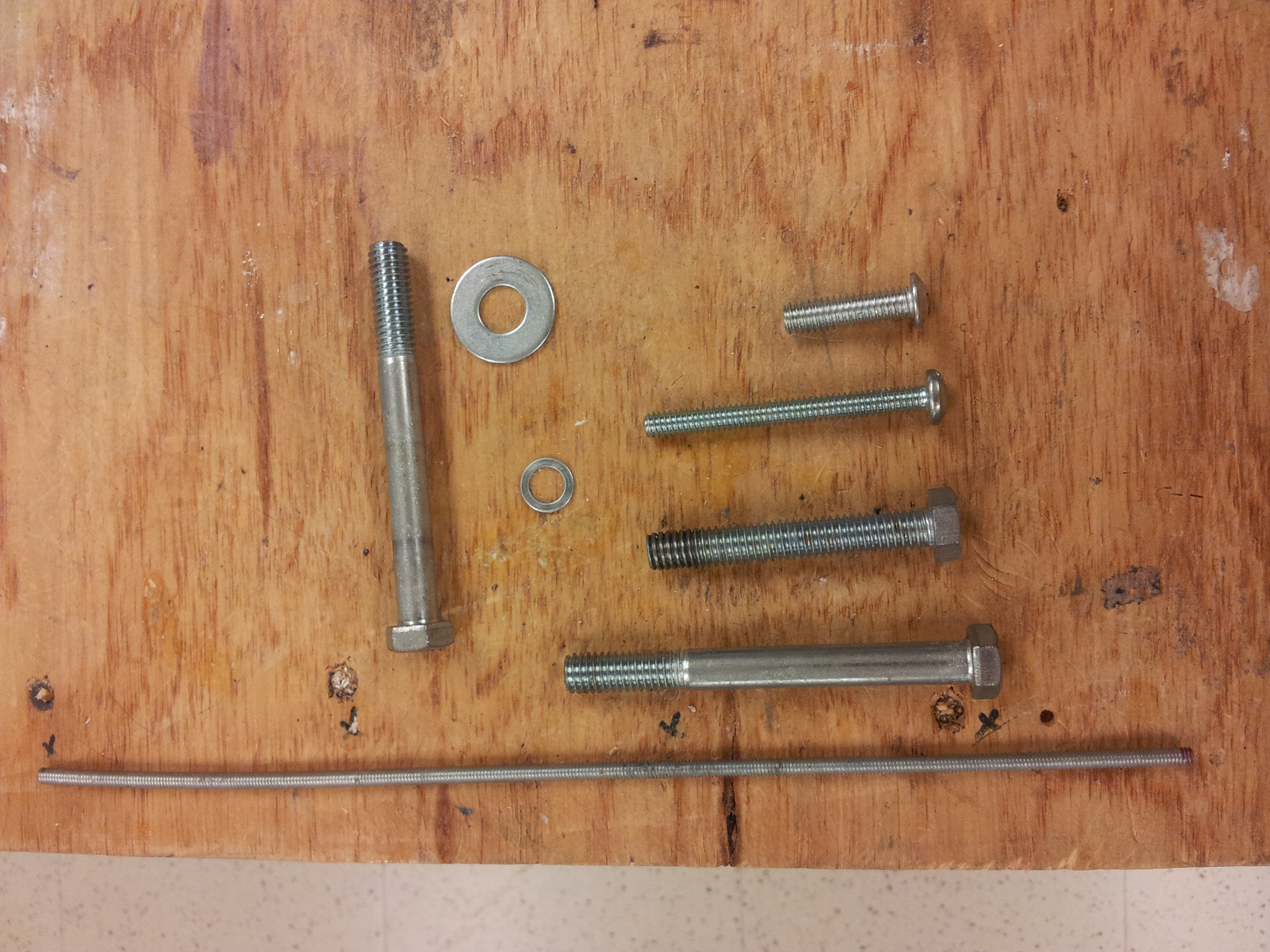 Assortment of bolts and screws and other parts and washers etc...